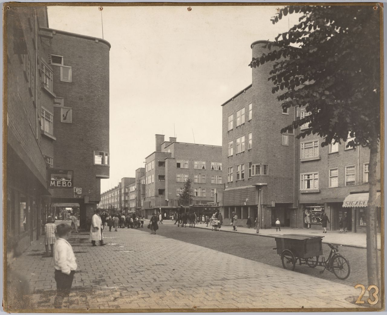 Plan West Amsterdam 1922-1927. Housing Vespuccistraat / Jan Evertsenstraat, 1925. Architect: J.F. Staal (1879-1940). Photographer: unknown. NAI Collection / TENT_n248 Persistent URL: For more photographs from this collection, please visit the NAI Collection Database You can help us gain more knowledge on the content of our collection by adding a comment with information. If you do not wish to log in, you can write an e-mail to: All these pictures are taken in the first half of the twentieth century. We are curious to learn how these buildings look like today. If you have recently taken photographs of these buildings or locations, please add them to your comment. If you'd like to include a Flickr photo, simply copy and paste its URL between square brackets in the commentary-field.